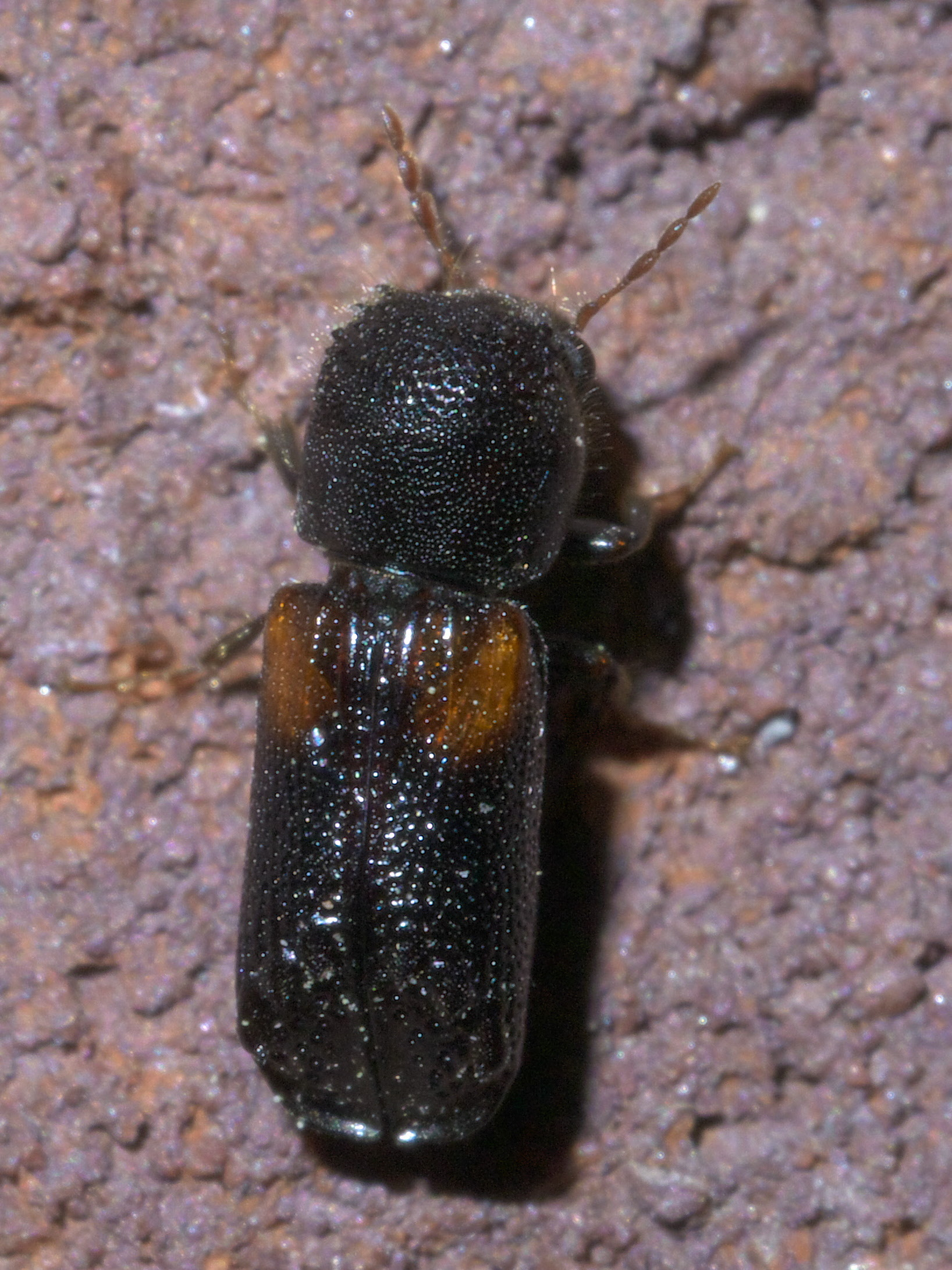 Xylobiops basilaris, Red-shouldered Bostrichid, Size: 5.5 mm, ID Confidence: 96